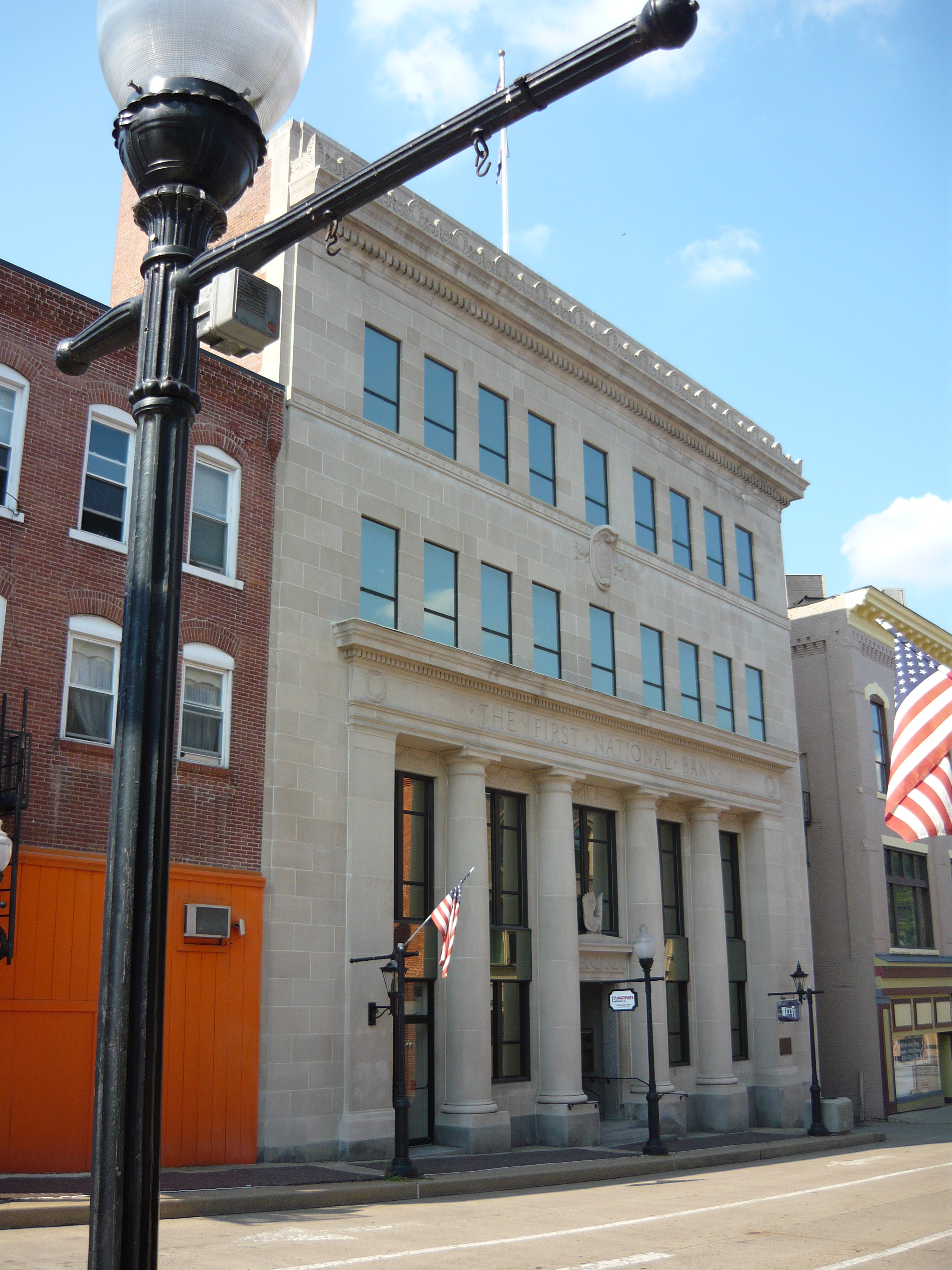 First National Bank of Charleroi, 210 Fifth Street, Charleroi, Pennsylvania. Originally built in 1889 as the Wilbur Hotel, architect unknown. Between 1919 and 1922, it was remodeled as a bank by architect William Lee Stoddart in a Greek Revival style.